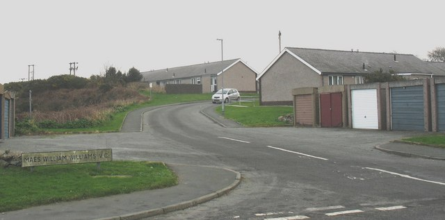 Entrance to Maes William Williams VC This housing estate is named after an Amlwch fisherman who as a seaman/gunner RNR on the Q-ship HMS Pargust won the VC in an action in the Atlantic which took place 7 June, 1917. William Williams also won the DSM and Bar in other actions. He died in 1965, aged 75, and is buried at Amlwch Cemetery. There is a series of fascinating photos of William Williams on the following link. Once activated, click on "William Williams VC".